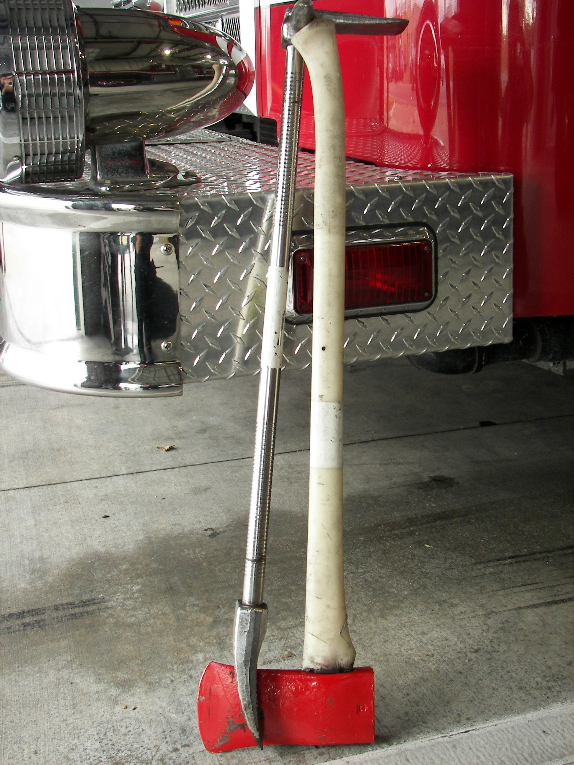 A married Halligan bar and flat-head axe.